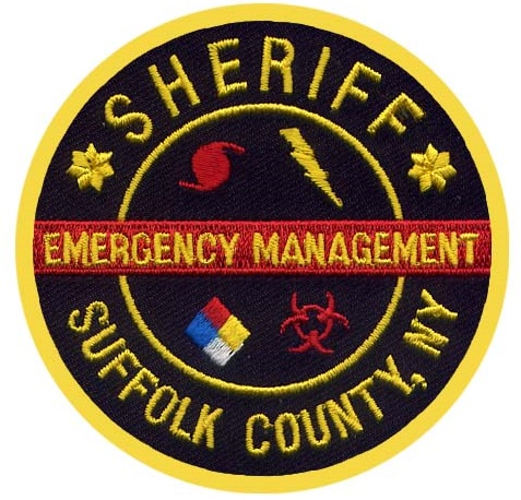 The Suffolk County Sheriff's Office Emergency Management Section Patch.